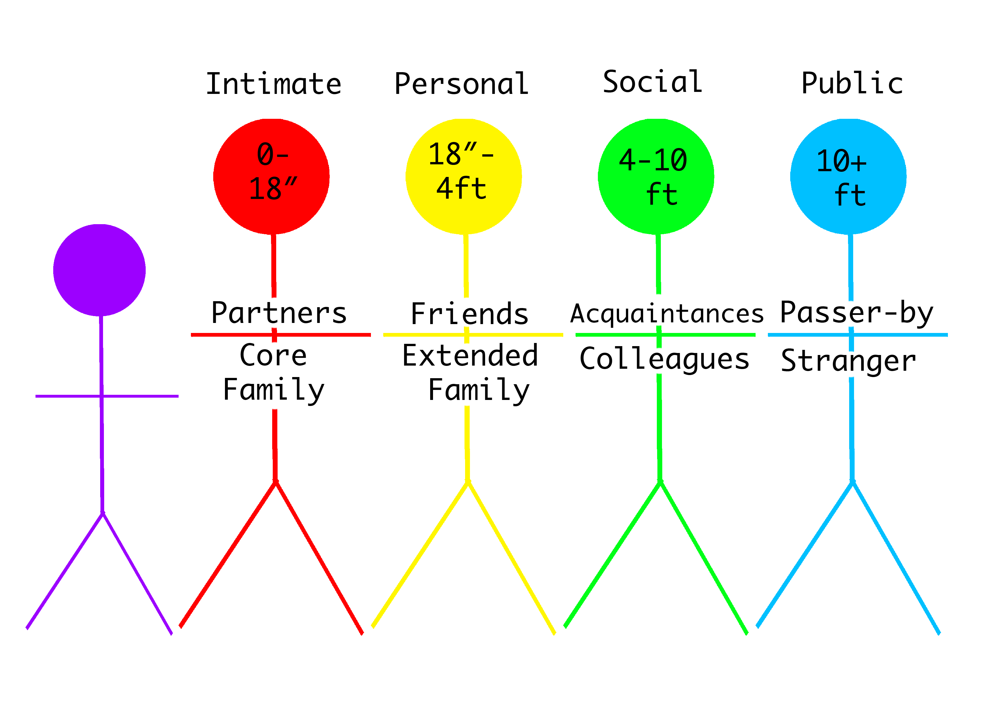 Personal Space Expectations diagram- The theory of distance and relationship between different people